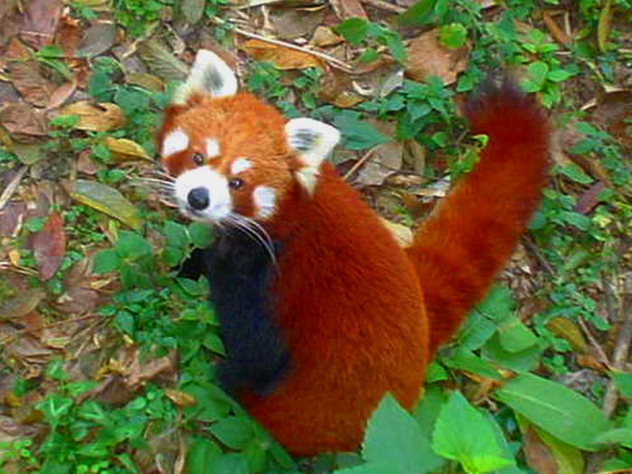 The Himalayan Red Panda (Ailurus fulgens). This photo is taken by Shubobroto in Darjiling Zoo.